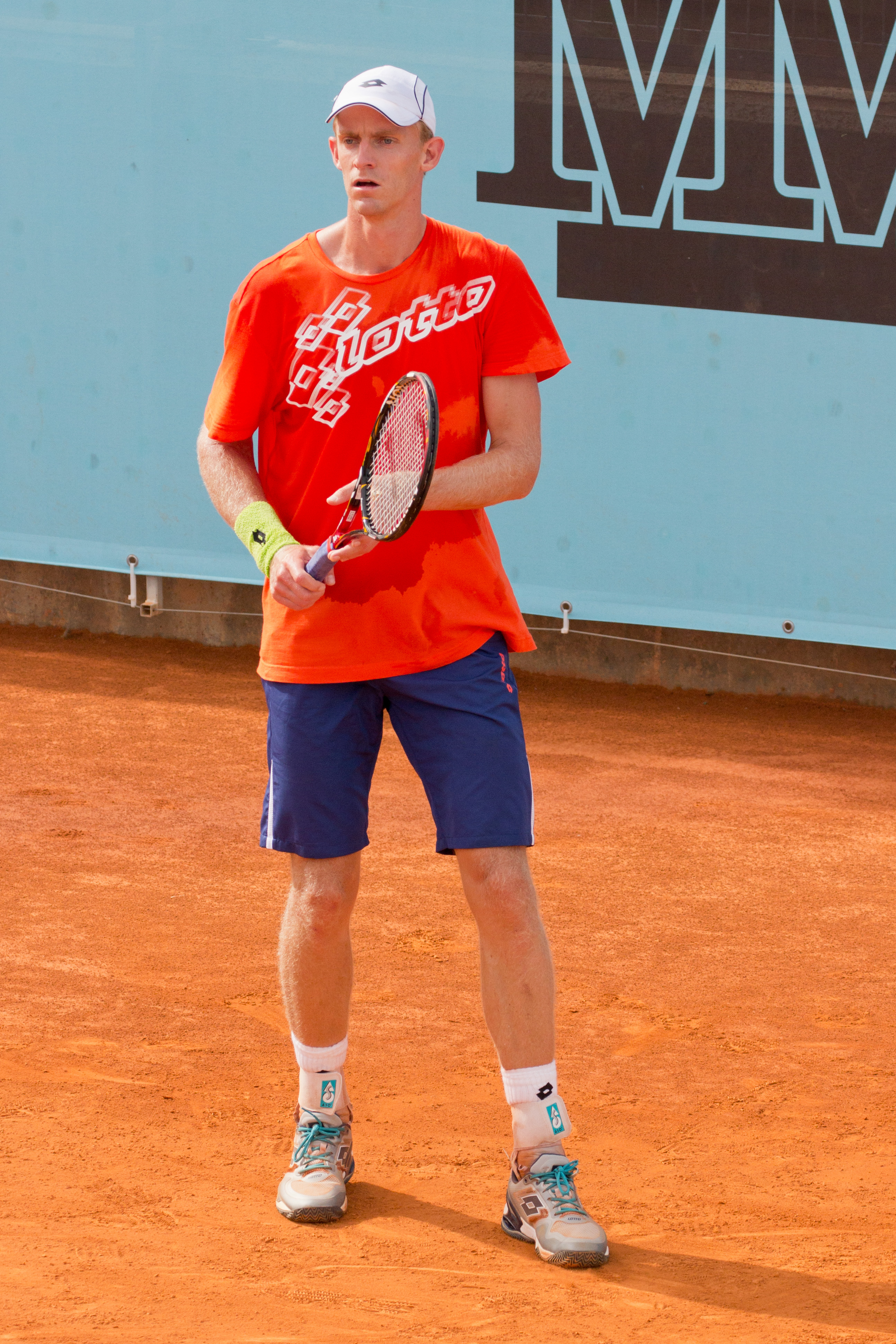 Kevin Anderson at the Madrid Open 2015, Madrid, Spain.